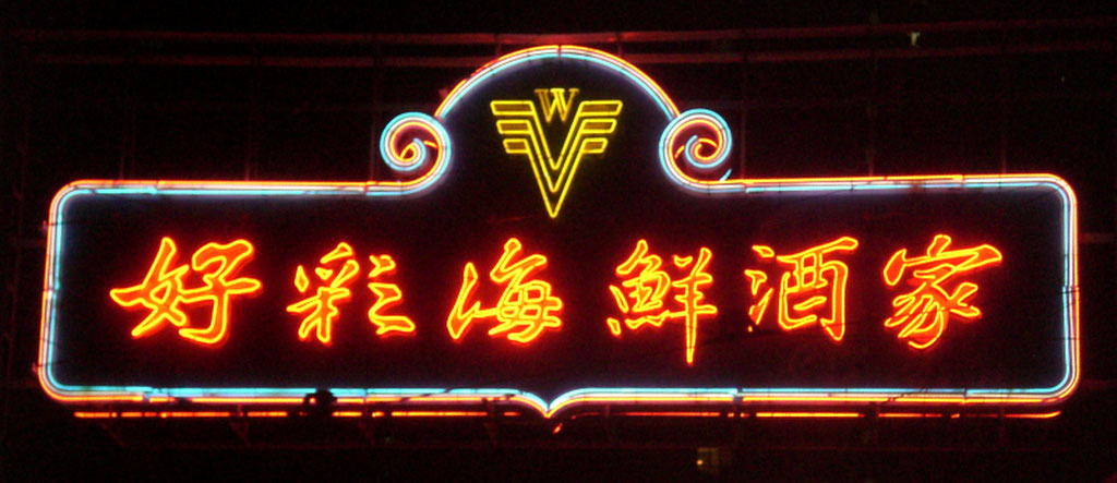 zh-yue:Category:上環好彩海鮮酒家